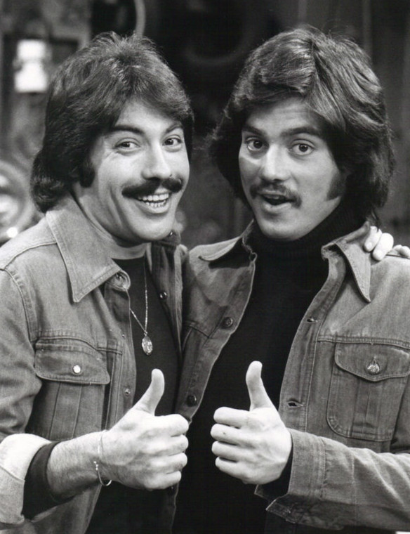 Photo of Freddie Prinze (right) and Tony Orlando (left) from the television program Chico and the Man. In this episode, Chico (Prinze) meets his lookalike (Orlando, guest star), who is the former boyfriend of the girl he's currently seeing.